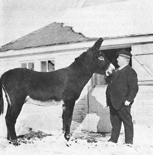 Edgerton W. Day and his horse, Carrots.